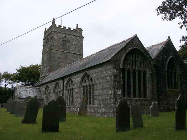 Parish church of St Branwalator, Branwalader, Breward or Brueredus, at St Breward, Cornwall, seen from the southeast